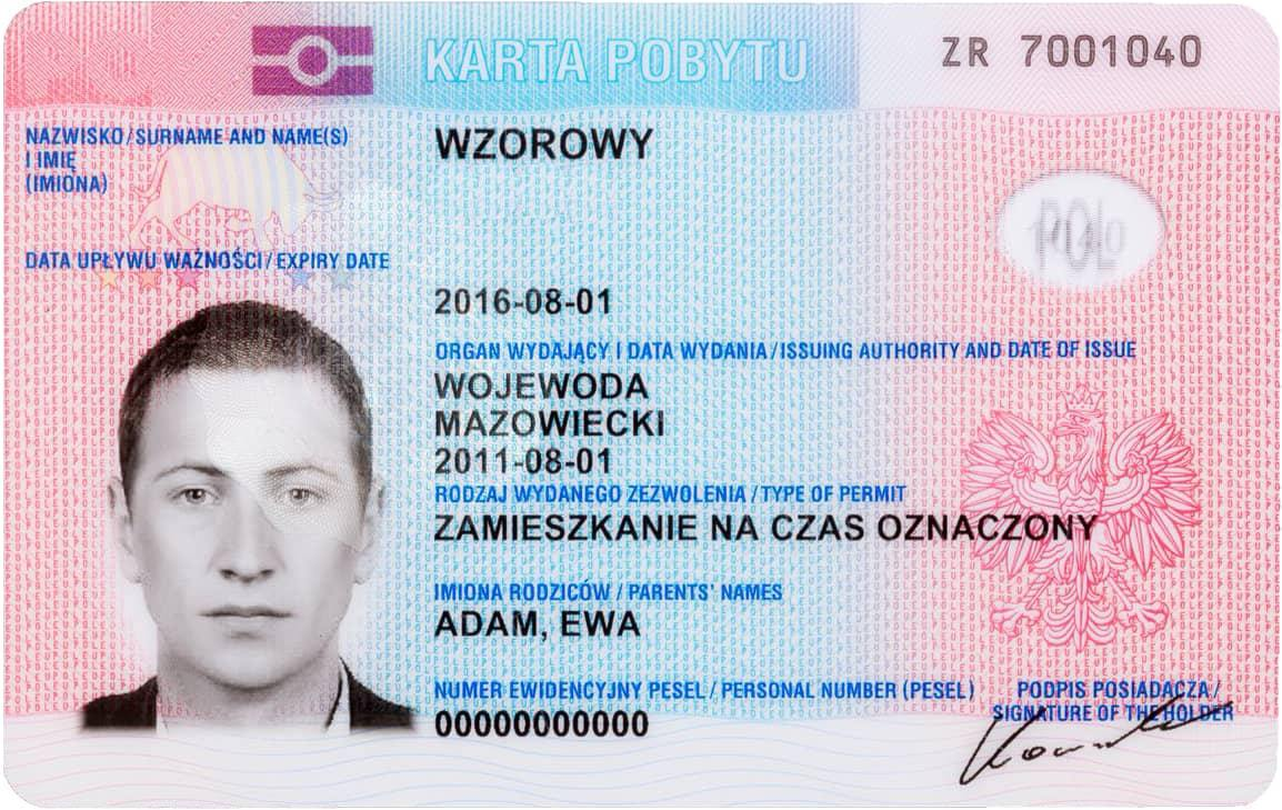 Karta Pobytu